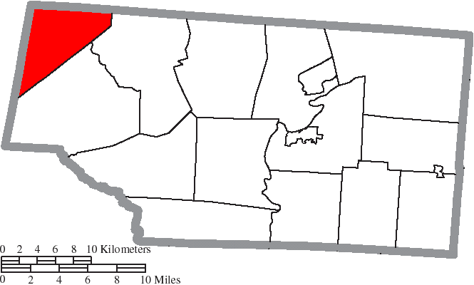 Map of the municipal and township boundaries of Pike County, Ohio, United States, as of the 2000 census, with the location of Perry Township highlighted. Township borders are shown only in unincorporated areas in order to differentiate incorporated and unincorporated areas more clearly.